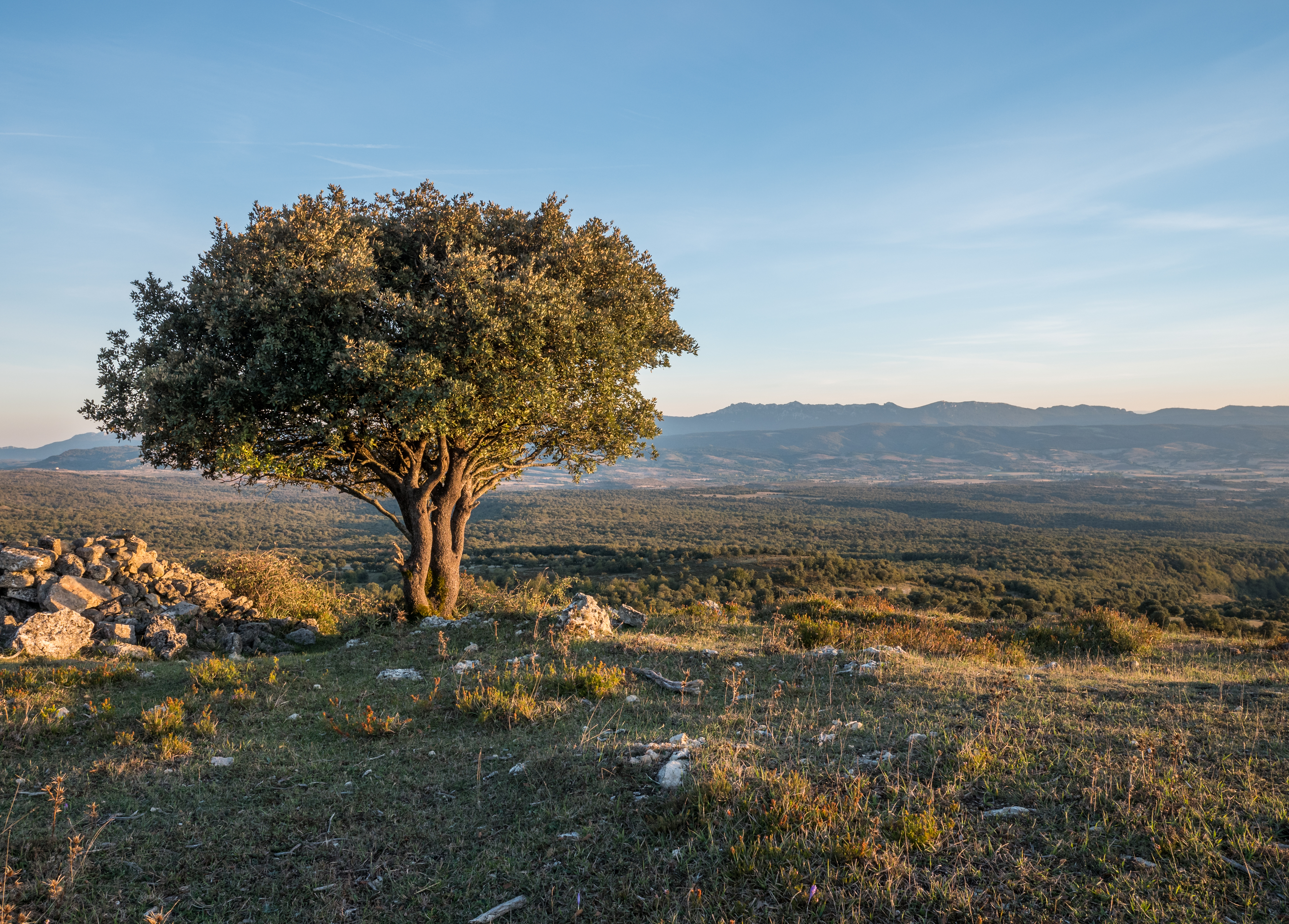 Holm oak (Quercus Ilex) near Pagogan summit. Montes de Vitoria mountain range, Spain